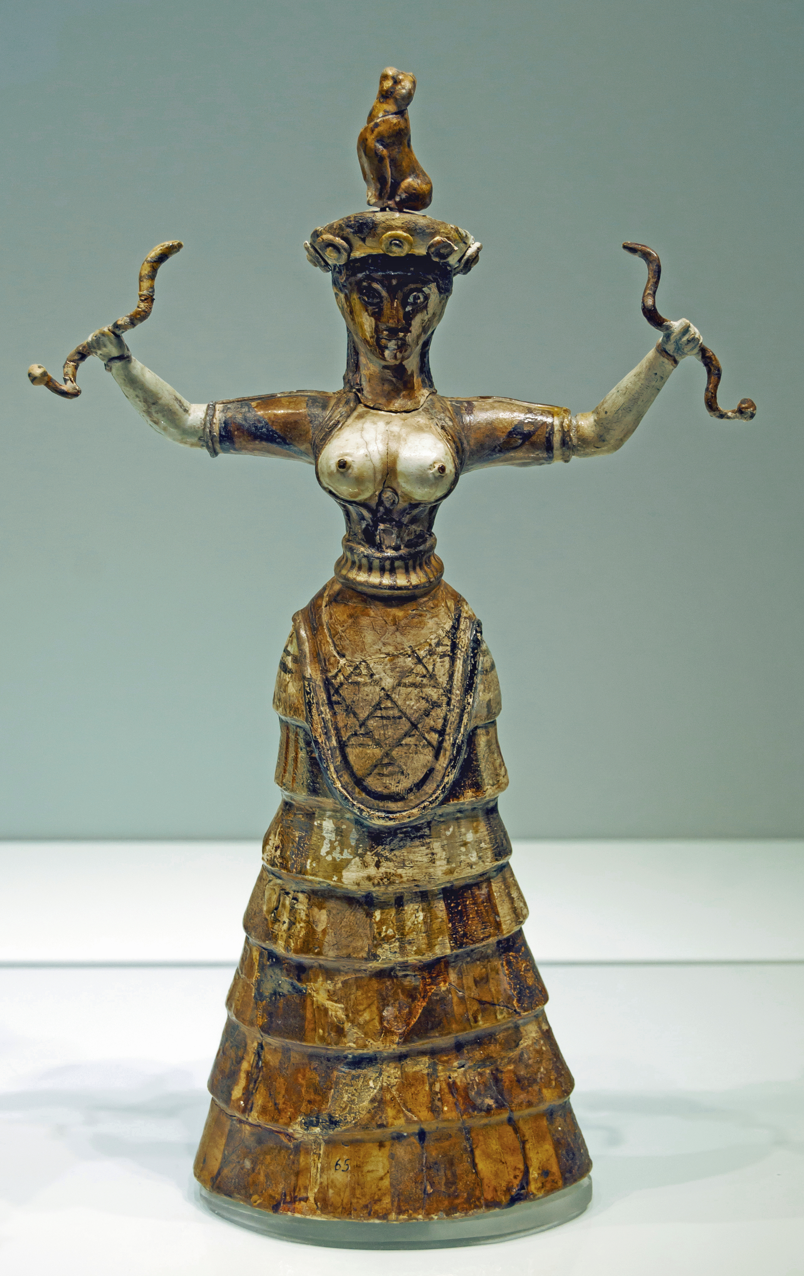 The so-called "Snake Goddess", as discovered and restored by Arthur Evans. 1600 BCE. Details (and even the whole object) could be a fake.